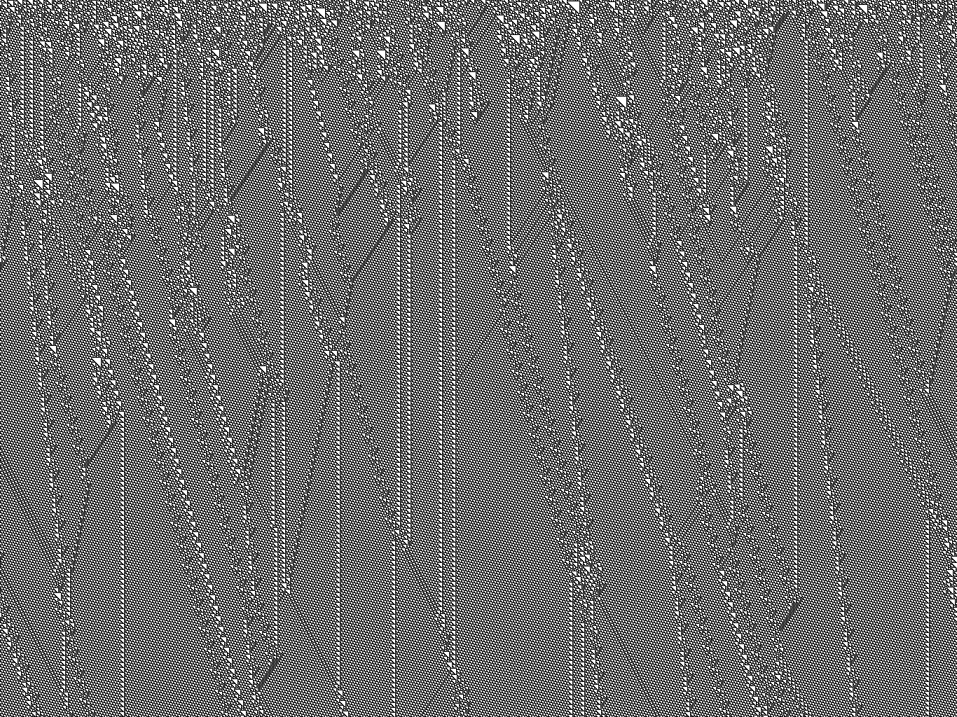 Rule 193 with random conditions